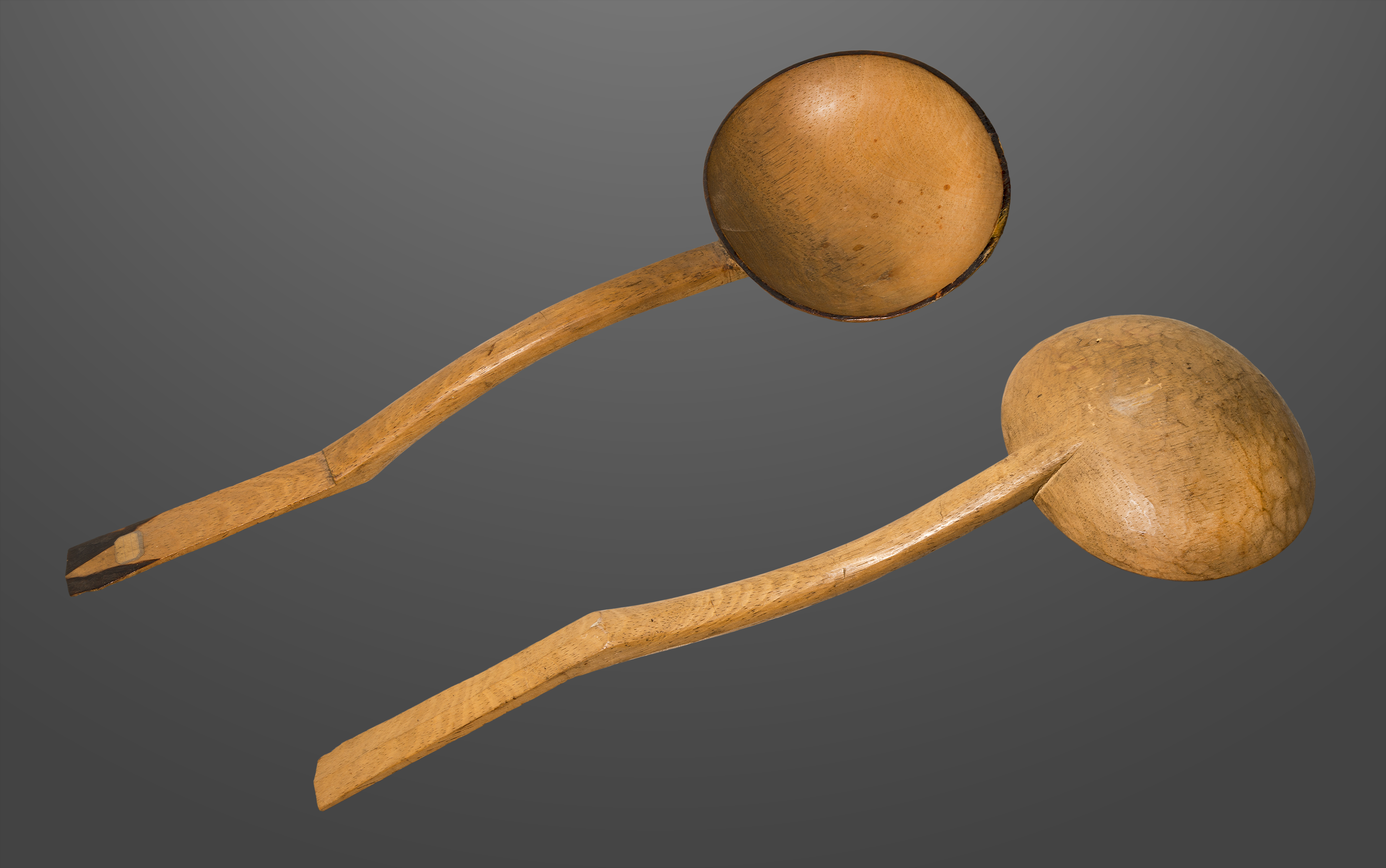 Spoon Sotro-be (means "big spoon") - Two views of the same object Population : Betsileo people Collector and collection: Gustave Julien Date of collection: the nineteenth century (4th Quarter) Materials: wood Size : 41.5 x 14.5 x 3 cm